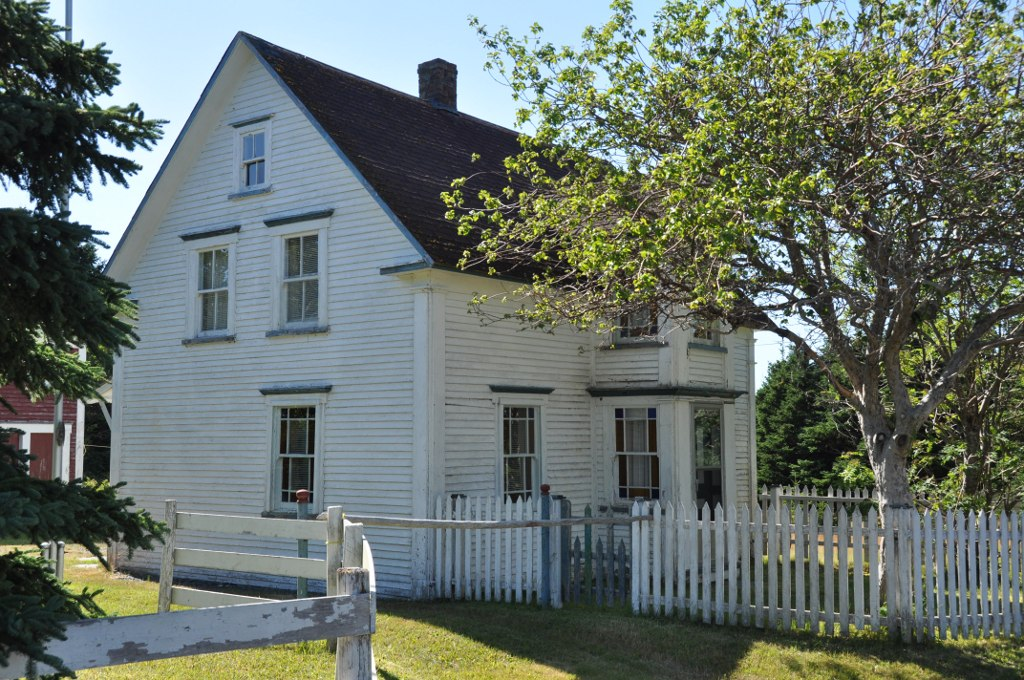 Butler Property, Cupids, Newfoundland.